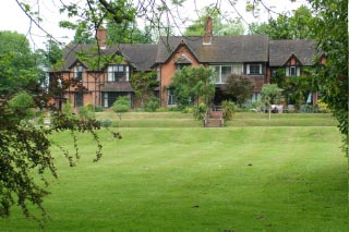 Pax Hill